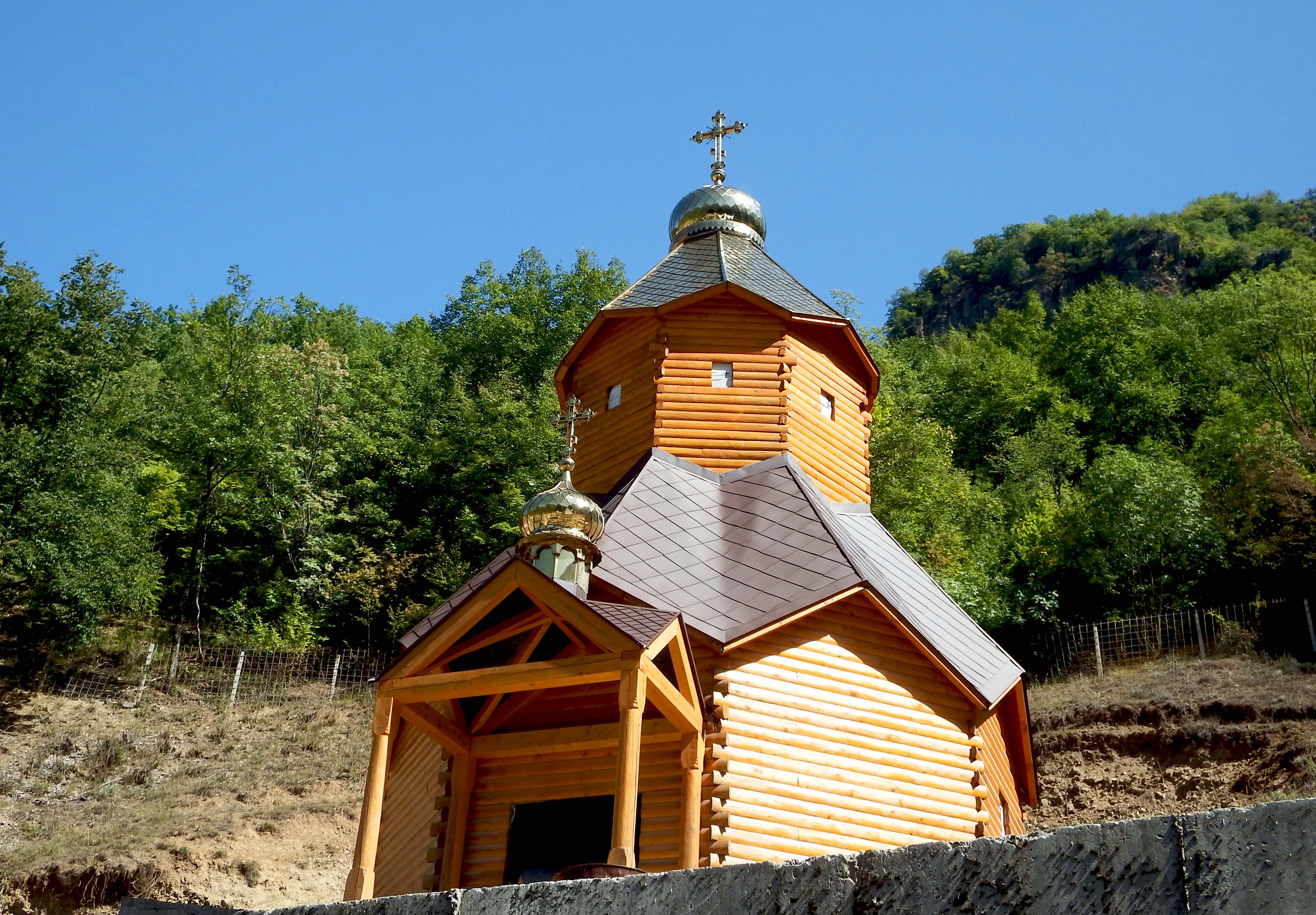 St.Serafim Sarovski church nestled in the orchard of the Bigorski Monastery (is envisaged construction of a small inn with monastic cells), the dome was built in Kiev-Pechersk Lavra in Ukraine, and was made in Russian style, with gilded titanium surface dedicated to the russian miracle worker St.Serafim Sarovski so on 28 July 2008. Bigorski Monastery has a spiritual valuables - relics of St.Serafim. Ова е фотографија на споменик на културата во Македонија со типски код: Ова е фотографија на споменик на културата во Македонија со типски код: A01This is a a photo of a cultural monument in North Macedonia with type id: A01 This is a a photo of a cultural monument in North Macedonia with type id: Ова е фотографија на споменик на културата во Македонија со типски код: A01This is a a photo of a cultural monument in North Macedonia with type id: A01